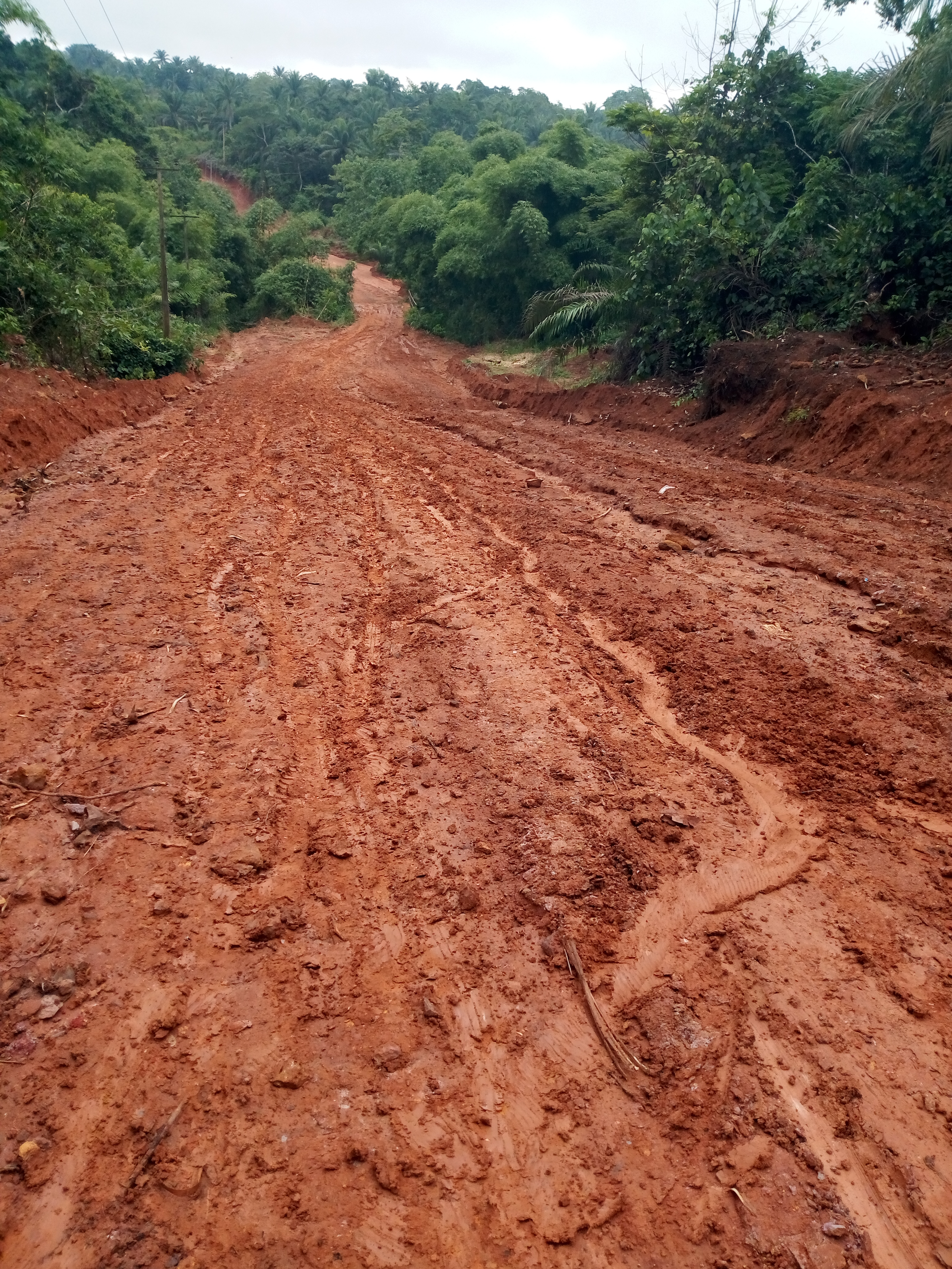 This is a terrible road covered with muds. It is the village of Umucheke in Ideato South LG of Nigeria. However, from the picture, it is surrounded by beautiful green vetetation that describes the cool environment bestowed to us by God. The pic was, however, taken mid 2018 during the rainy season. This is an image with the theme "Play" from: Nigeria